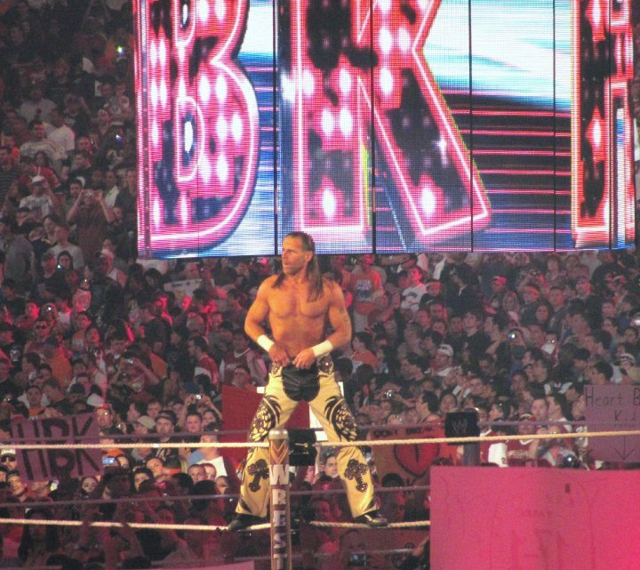 Shawn Michaels enters the ring as he awaits to face The Undertaker in a Career vs. Streak match